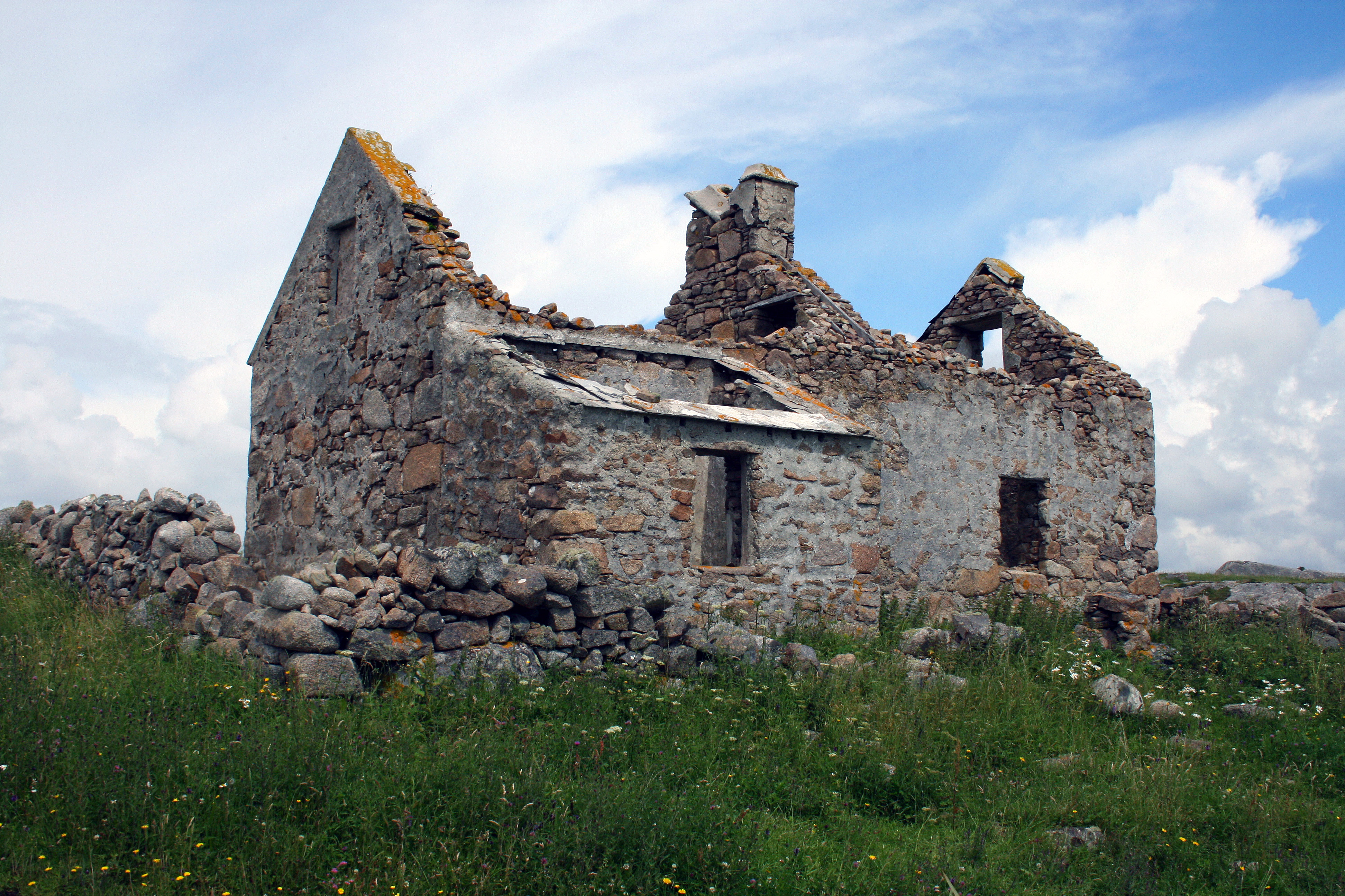 Ruined farm on Omey Island in Ireland.